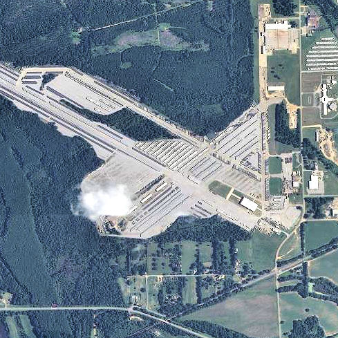 USGS digital orthophoto of Selma Municipal Airport in Alabama